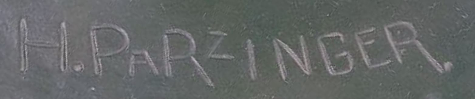 Signature of Hans Parzinger (1886-1958)